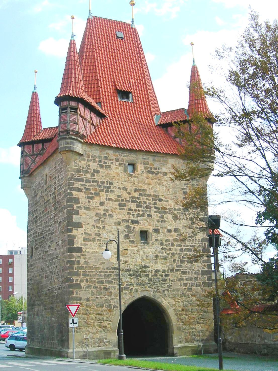 Prague Gate in Rakovník, Czech Republic